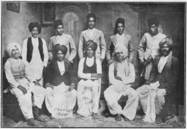 Jalsa of Kisan Faguji Bansode, picture taken from Anupama Rao's 'The Caste Question' wherein its published courtesy Eleanor Zelliot.